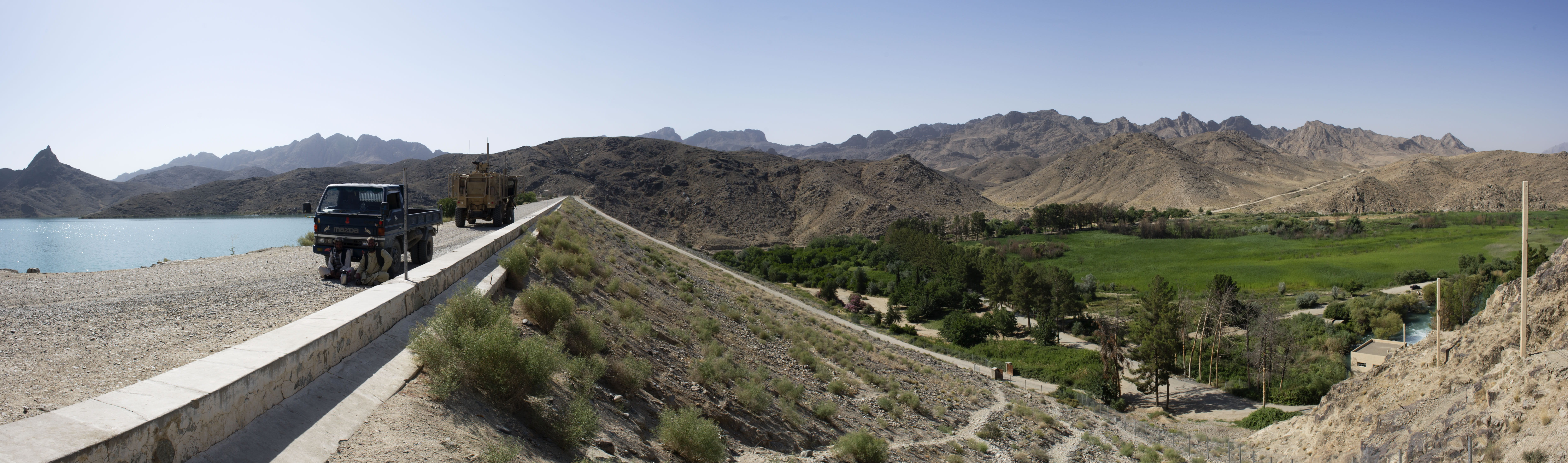 Dahla Dam, to the north of Kandahar City in Afghanistan, holds water for irrigation from the Arghandab River.